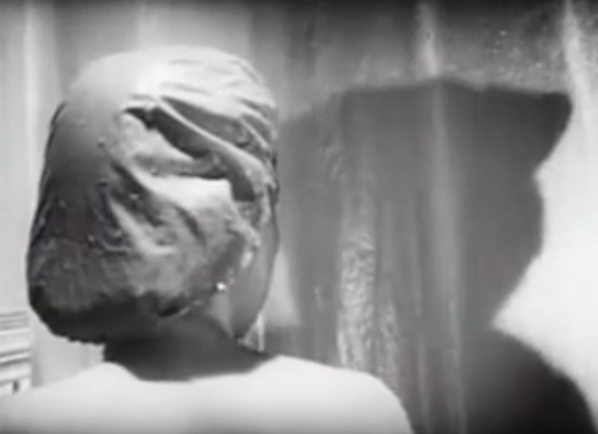 Screenshot of scene from The Seventh Victim trailer